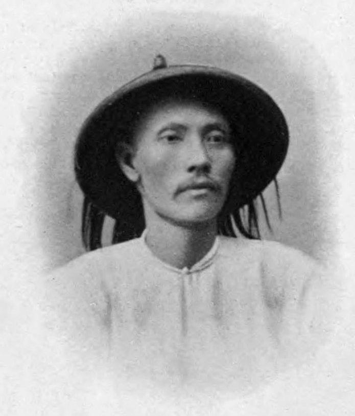 chun lai to of the china merchants steam navigation co